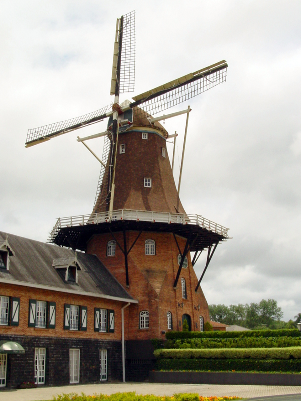 Windmill in Castro, Paraná, Brazil